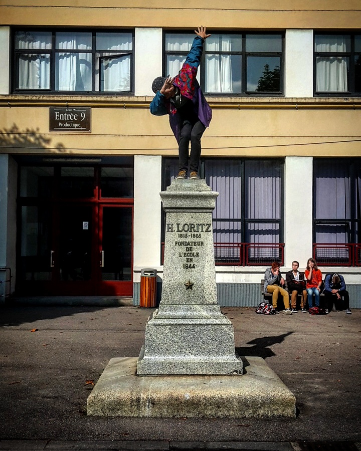 A teenager dabbing on his high school creator statue's pedestal